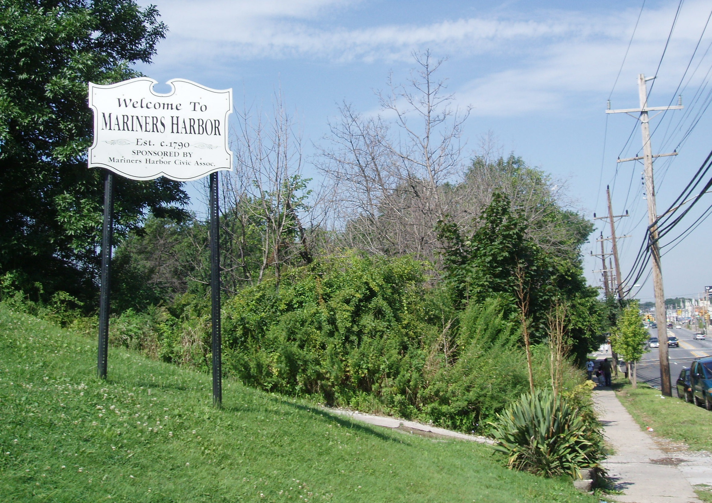 Mariner's Harbor Welcome Sign